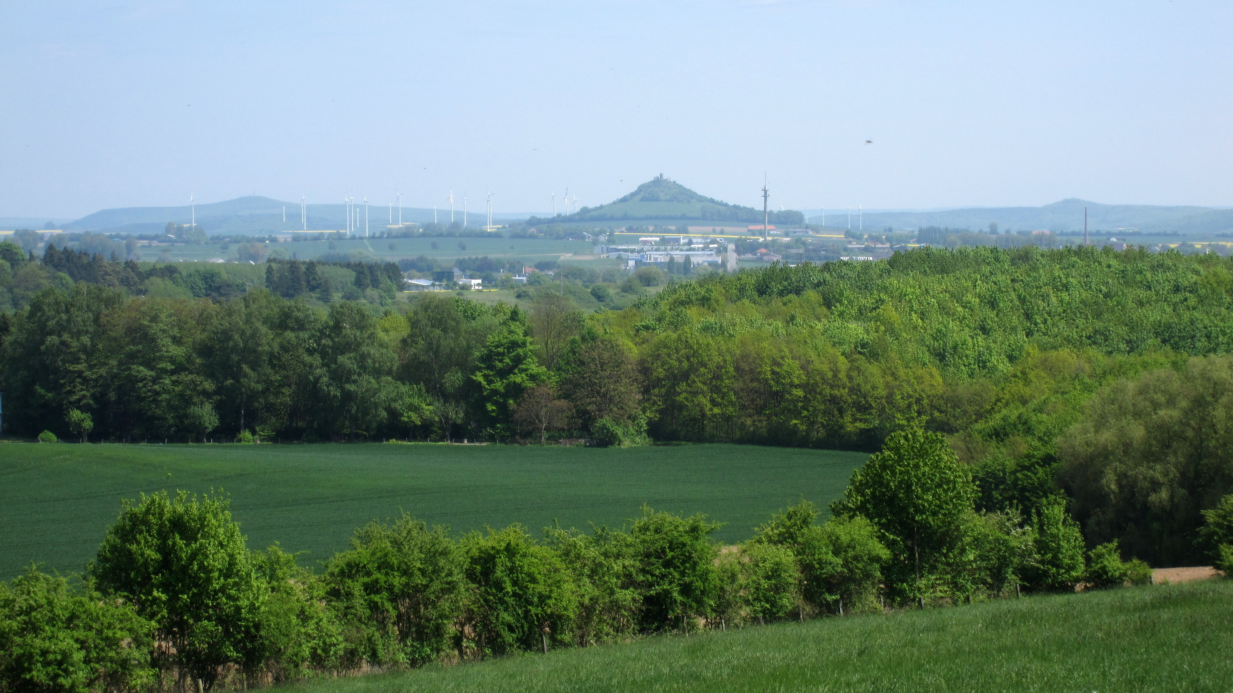 East view from Heinberg in direction of the Desenberg near Warburg. Photograph regarding the 250th anniversary of the Battle of Warburg in 2010. The battle was fought on 31 July 1760 during the Seven Years' War at the Heinberg near todays constituent community Warburg-Ossendorf.